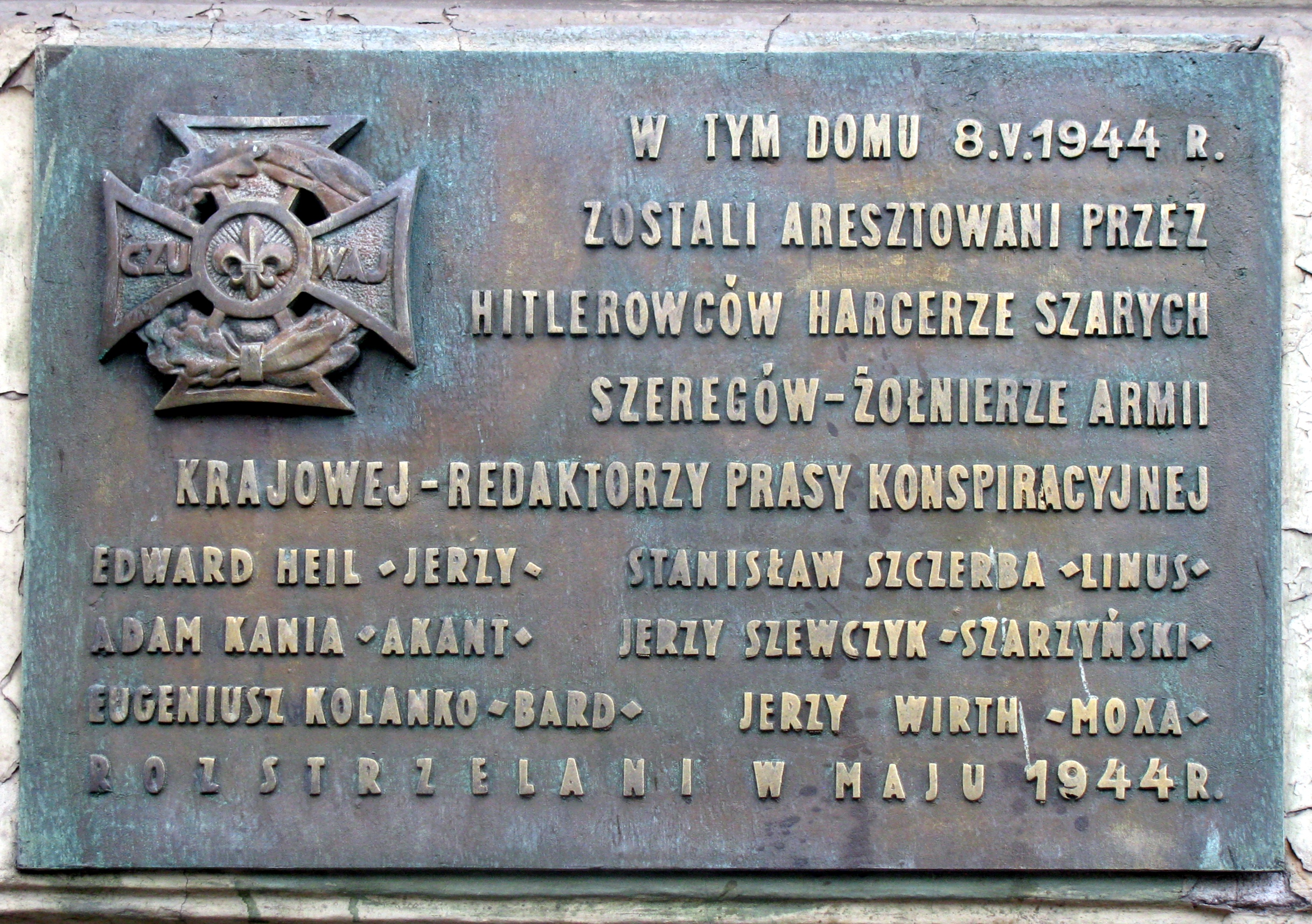 The plaque at 14 Grzegórzecka